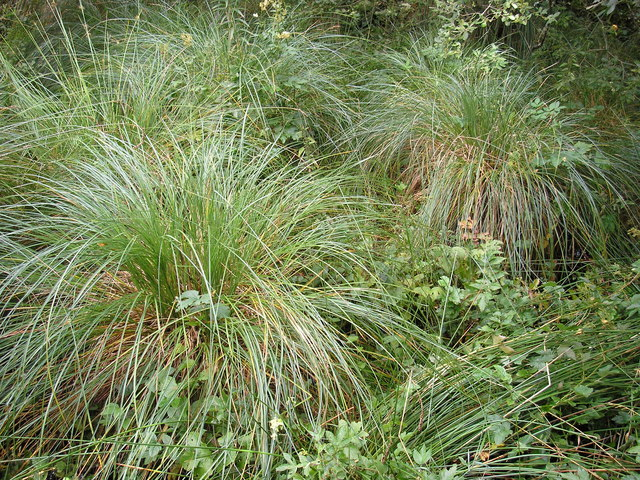 Tussock Grass, Gordon Moss The Nature Reserve has many rare plants, this tussock grass grows only here in Scotland, I don't know its name.